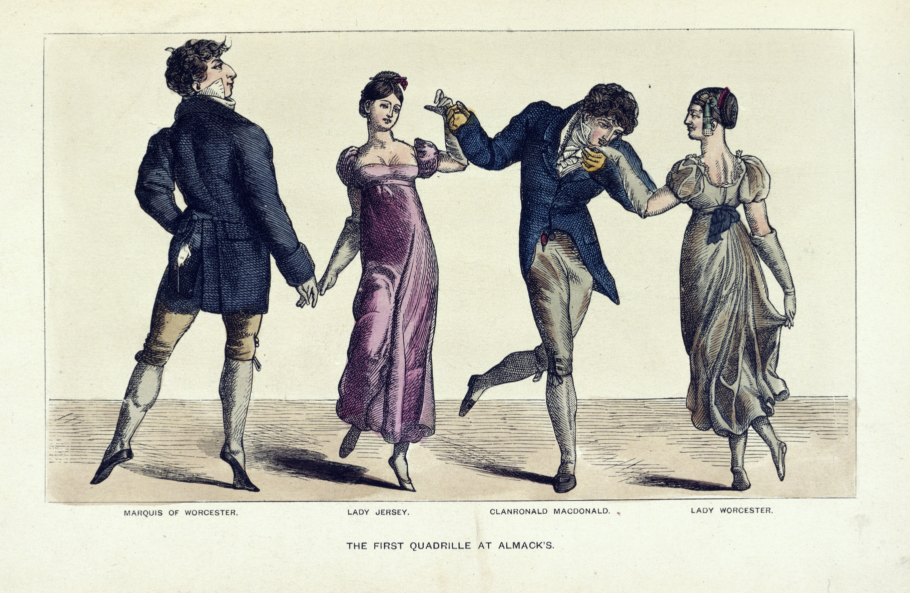 Four figures dancing at the club Almack's: Marquis of Worcester; Lady Jersey; Clanronald Macdonald and Lady Worcester.